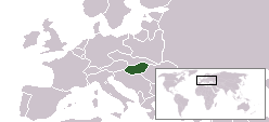 Location of Hungary during 1920s and 1930s